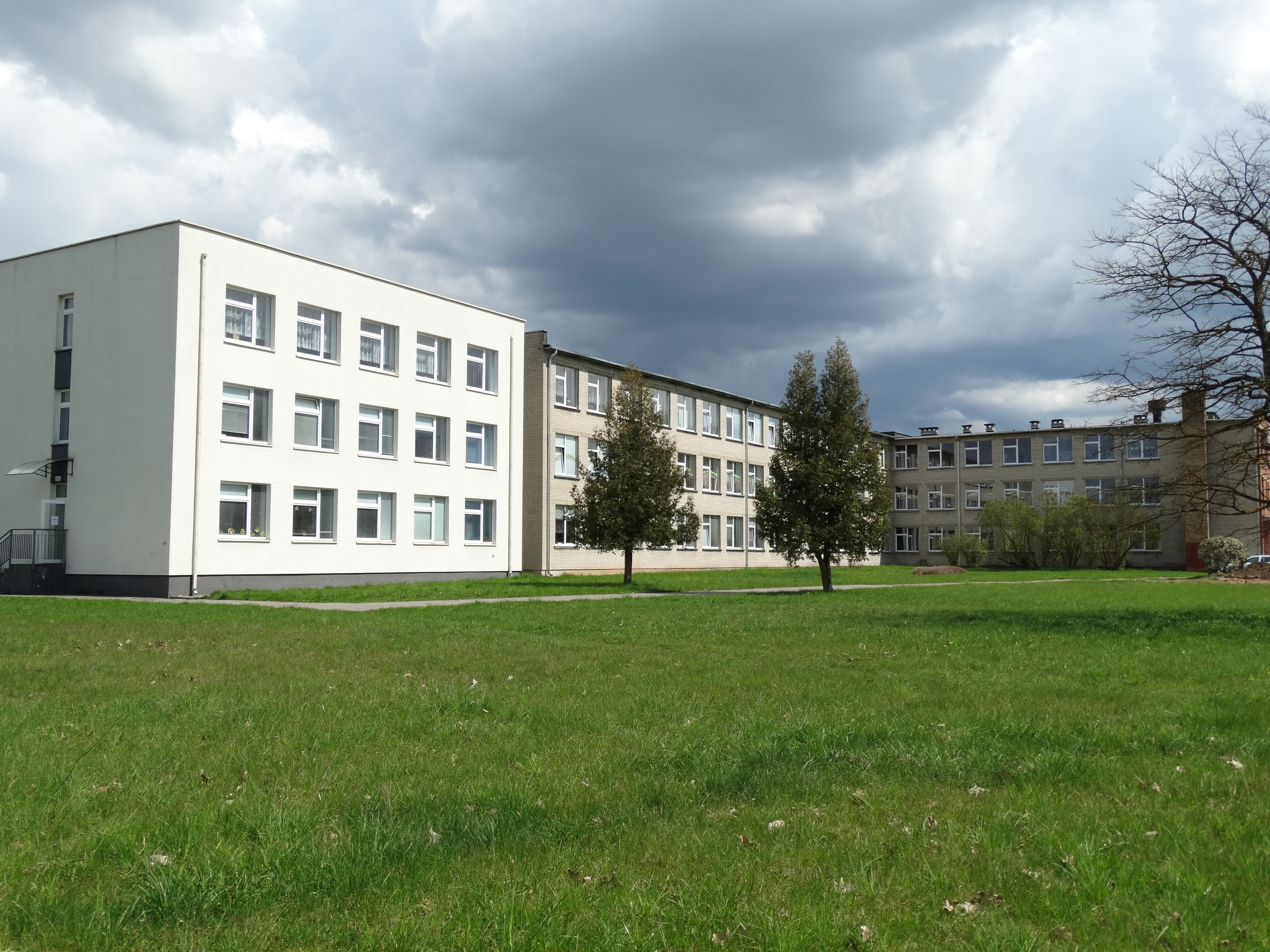 M. Lukšienė Gymnasium, Marijampolis, Vilnius District, Lithuania